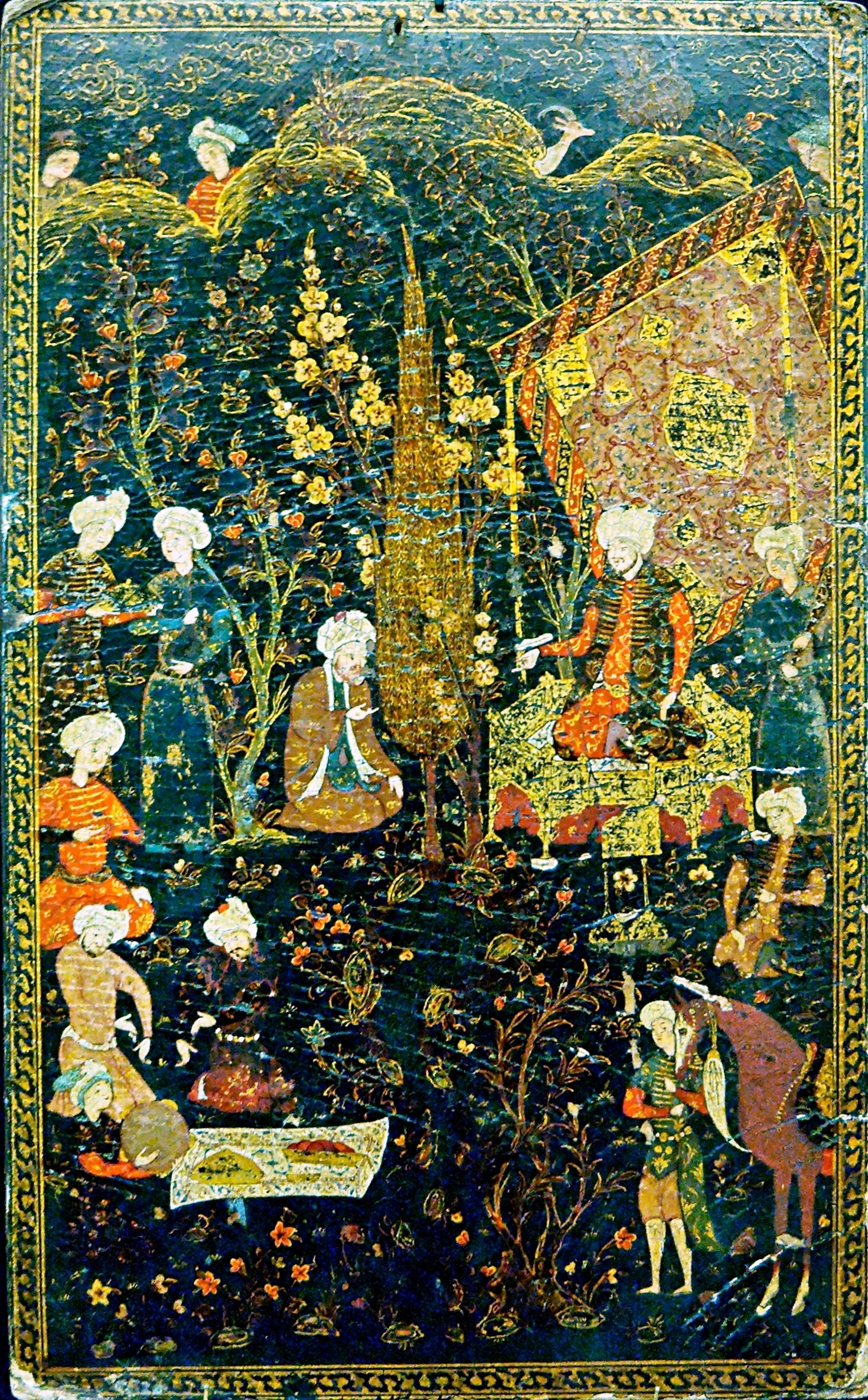 Bookbinding, verso: a princely entertainment in the country.